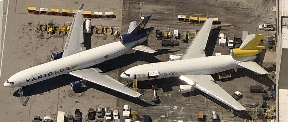 Comparison of MD11 And DC10 Varig, to the right DC10 to the left MD11